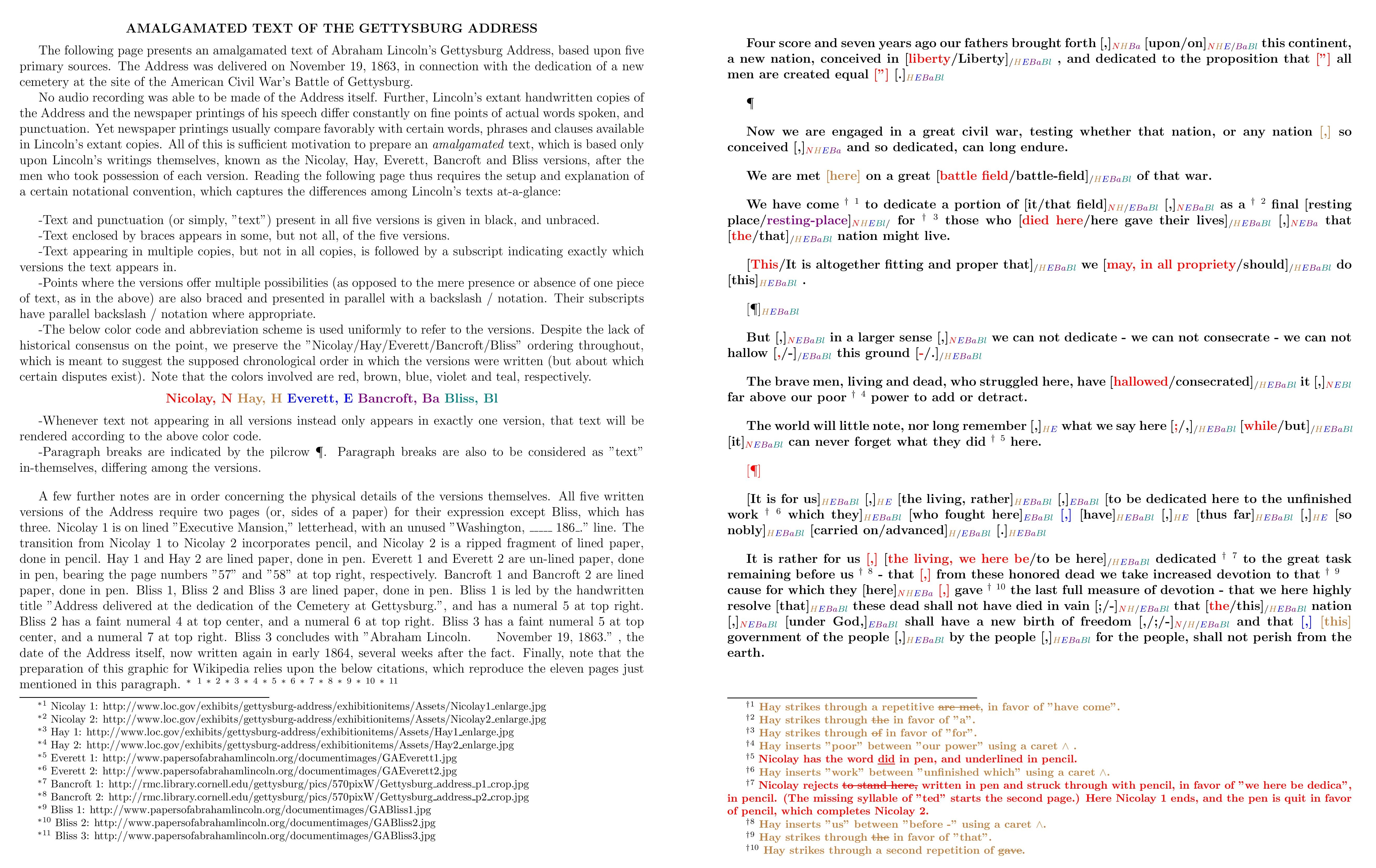 This image presents an amalgamated text of the Gettysburg Address, based upon the five extant handwritten copies produced by Lincoln. It collects these five versions as a single, annotated text.